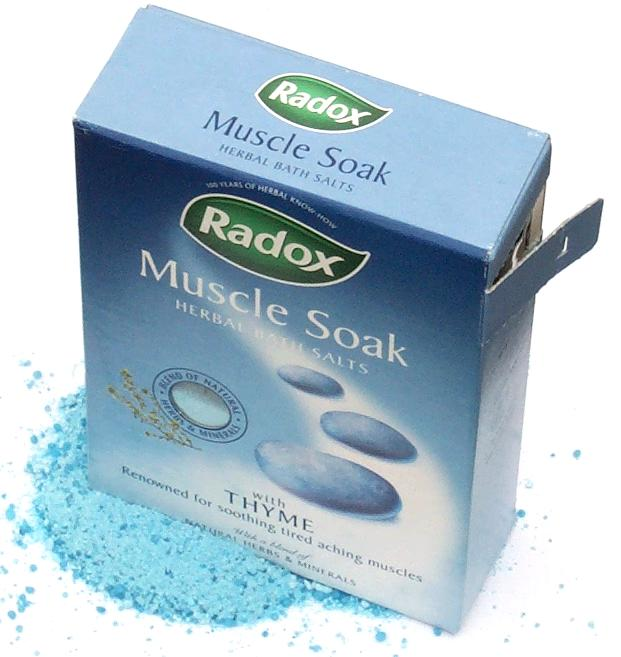 A box of bath salts with some of the contents spilled beside it.